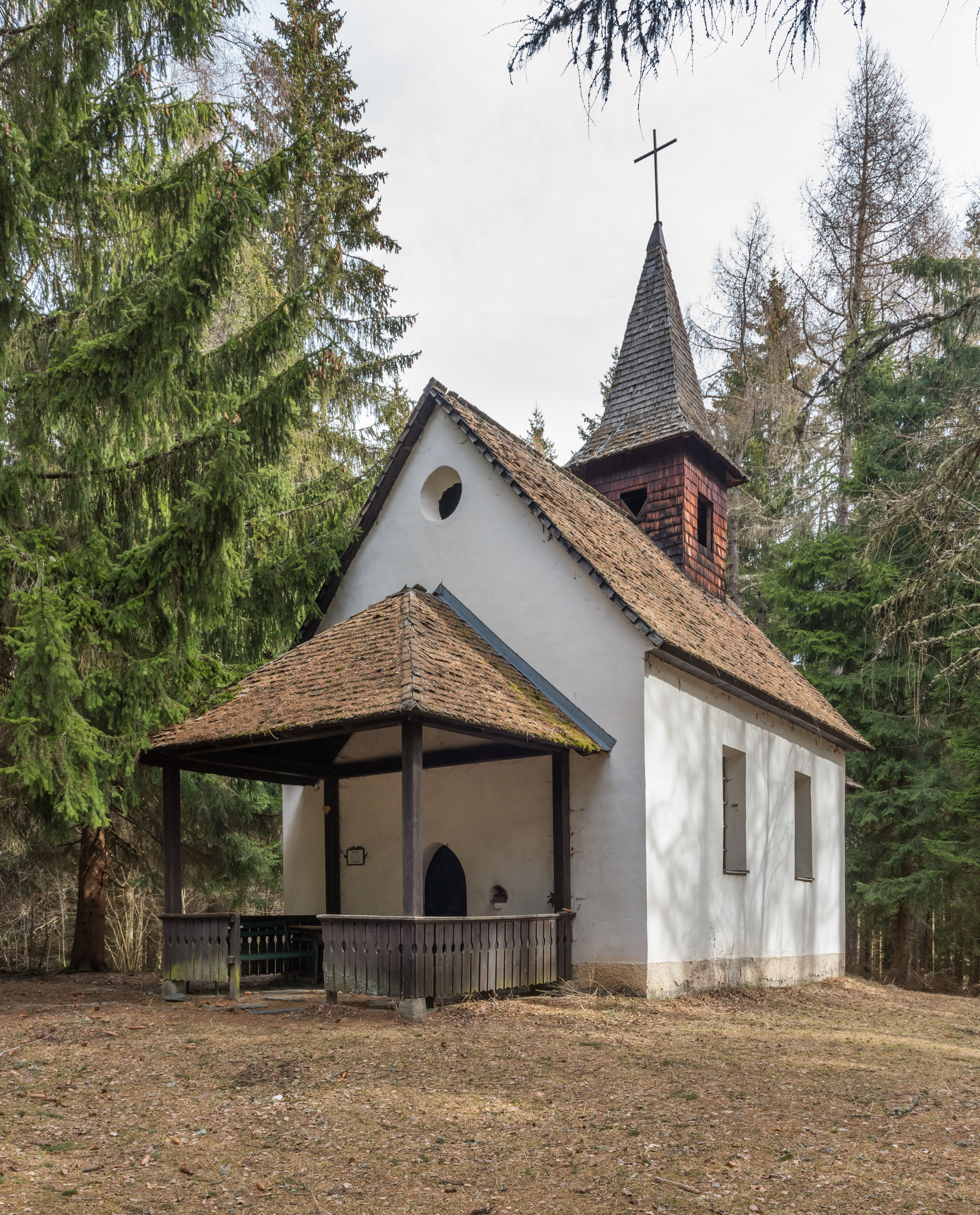 Subsidiary church Saint Vitus in Gößeberg, municipality Liebenfels, district Sankt Veit, Carinthia, Austria, EU